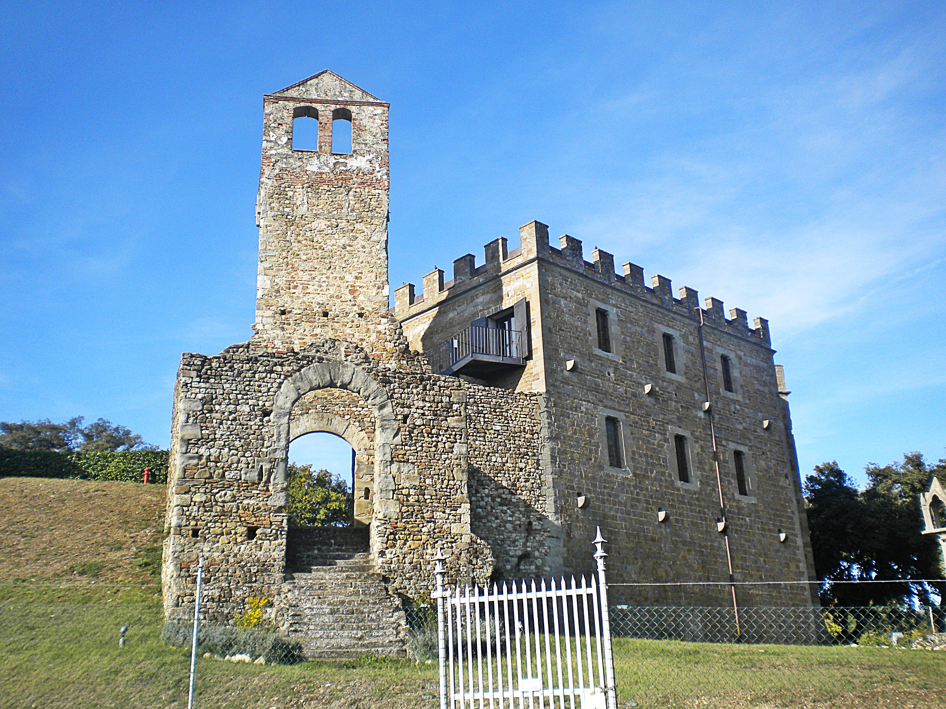 Villanova Castle-view